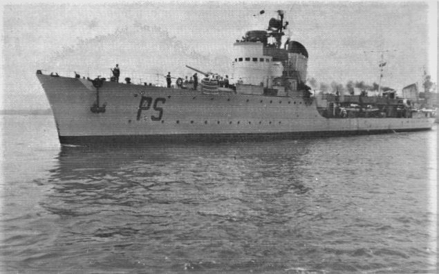 The torpedo boat Perseo (PS) in navigation.